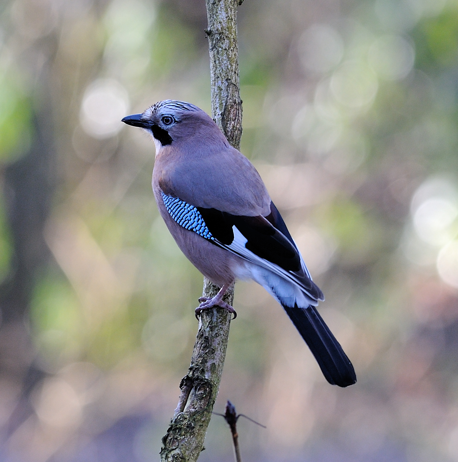 A Eurasian Jay in England.